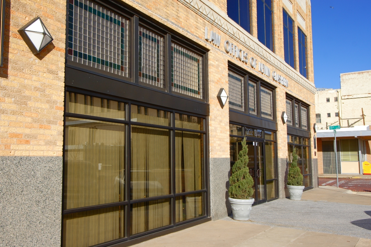 Carlock Building, on the National Registry of Historic Places, Lubbock, Texas